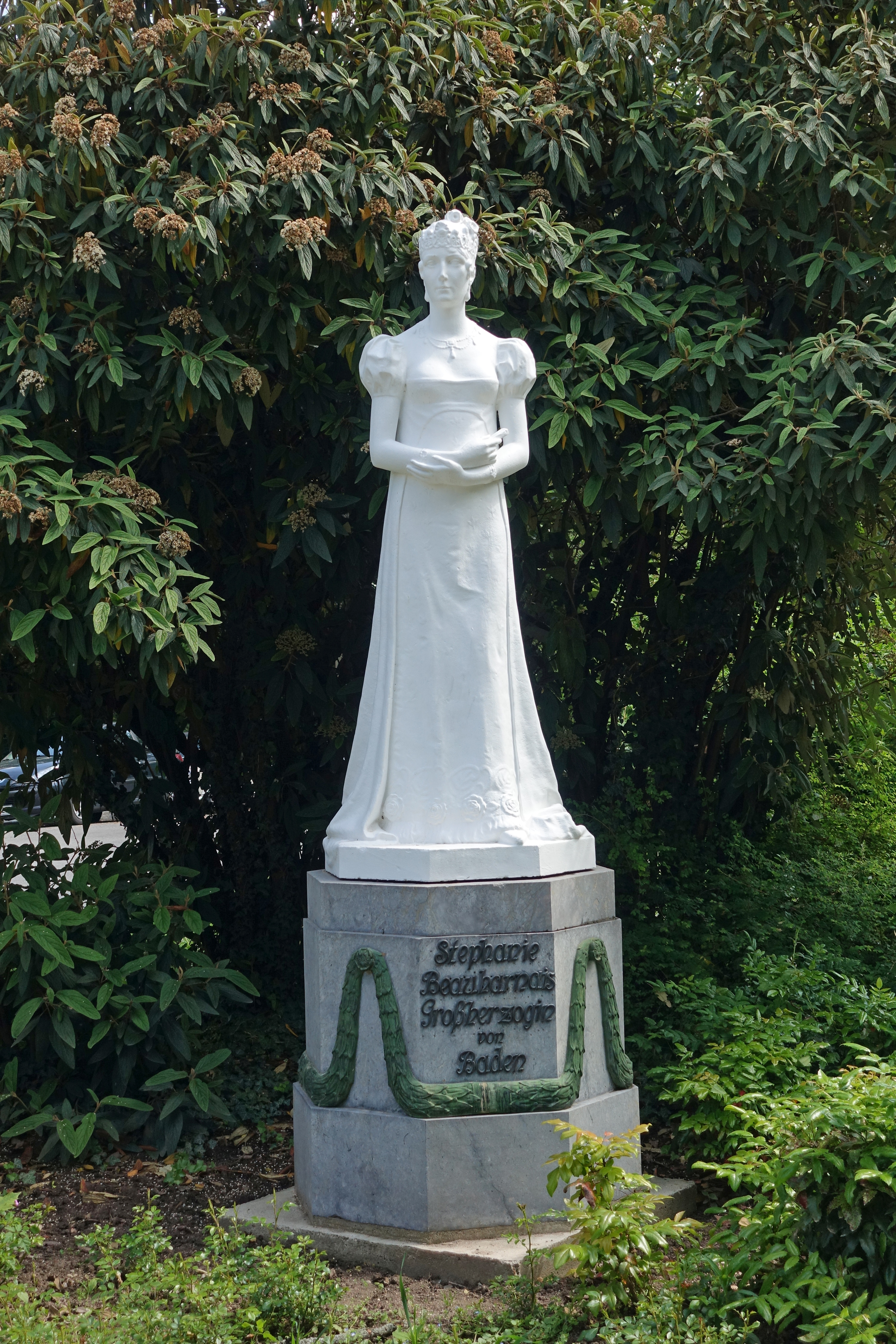 Stephanie Beauharnais, Statue (replica) in Mannheim, Germany